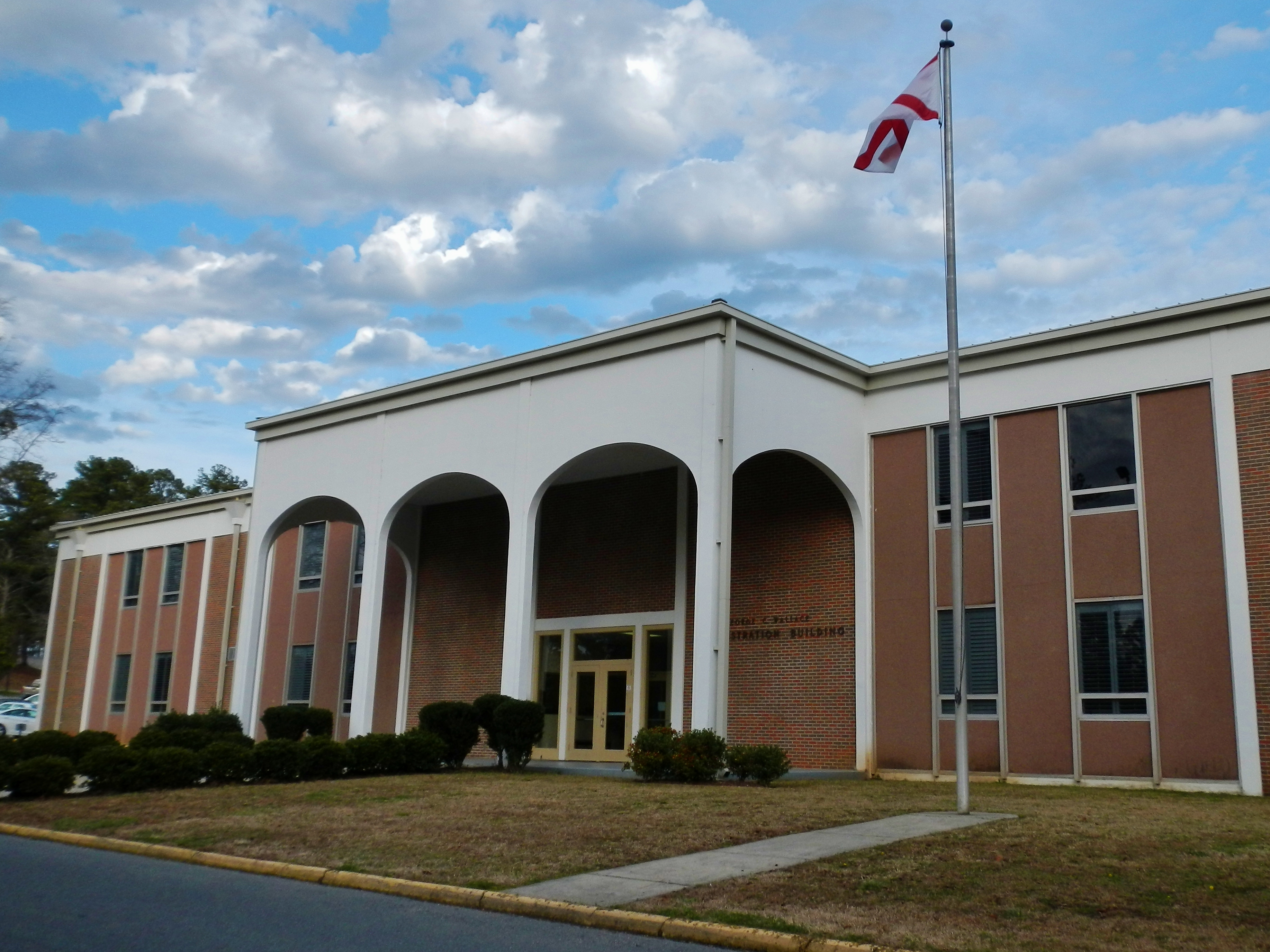 This is a photo of the George C. Wallace Administration Building on the Campus of Central Alabama Community College in Alexander City, Alabama.